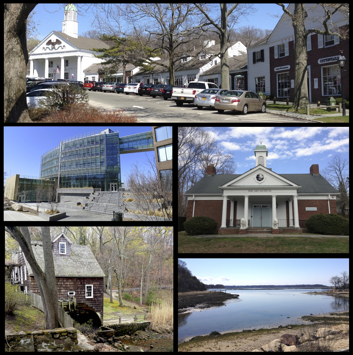 Montage of photos representing several facets of Stony Brook, New York. Clockwise from top are the Stony Brook Village Center, the art building at the Long Island Museums, Stony Brook Harbor, the c.1751 Stony Brook Mill, and the Simons Center for Geometry and Physics at Stony Brook University.